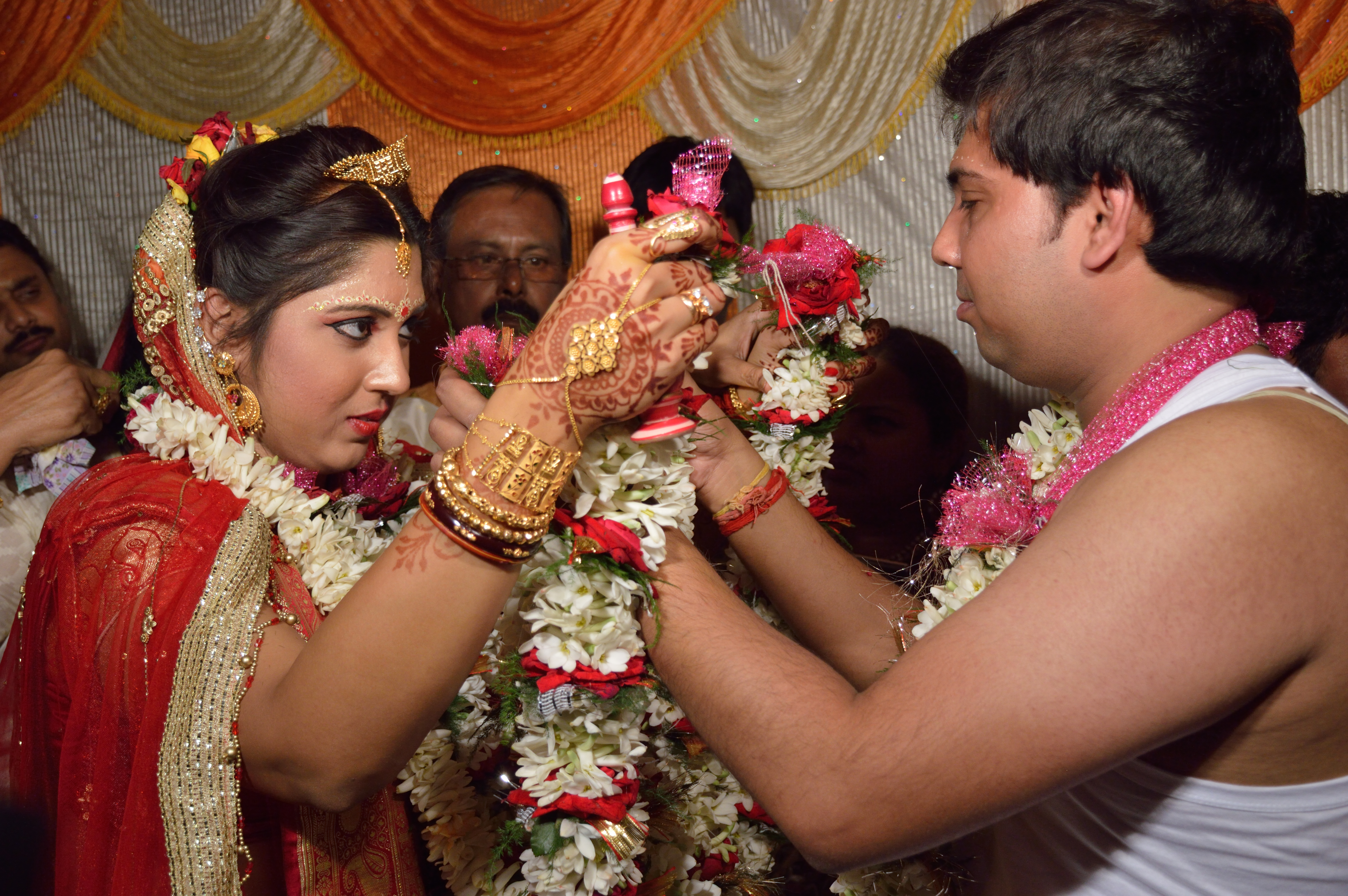 This photograph has been taken during the wedding of Sudarshita Mukherjee with Avijit Chakraborty in Howrah. It was a traditional Bengali Hindu Brahmin marriage.